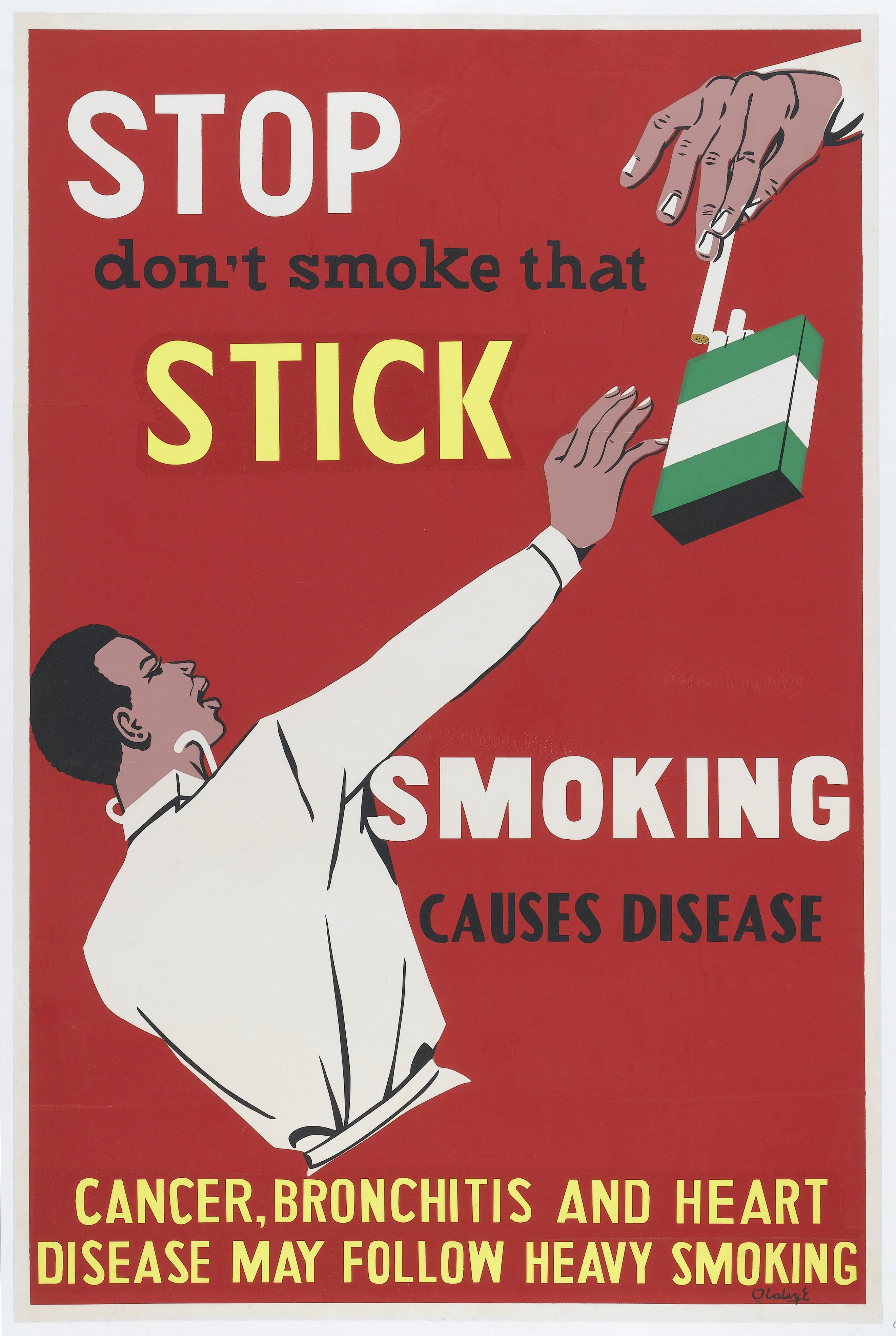 Anti-smoking campaign: A doctor wearing a stethoscope tells another individual (shown by a disembodied hand) not to smoke a cigarette. Text reads 'Stop: don't smoke that stick. Smoking causes disease. Cancer, bronchitis and heart disease may follow heavy smoking.' Iconographic Collections Keywords: anti-smoking